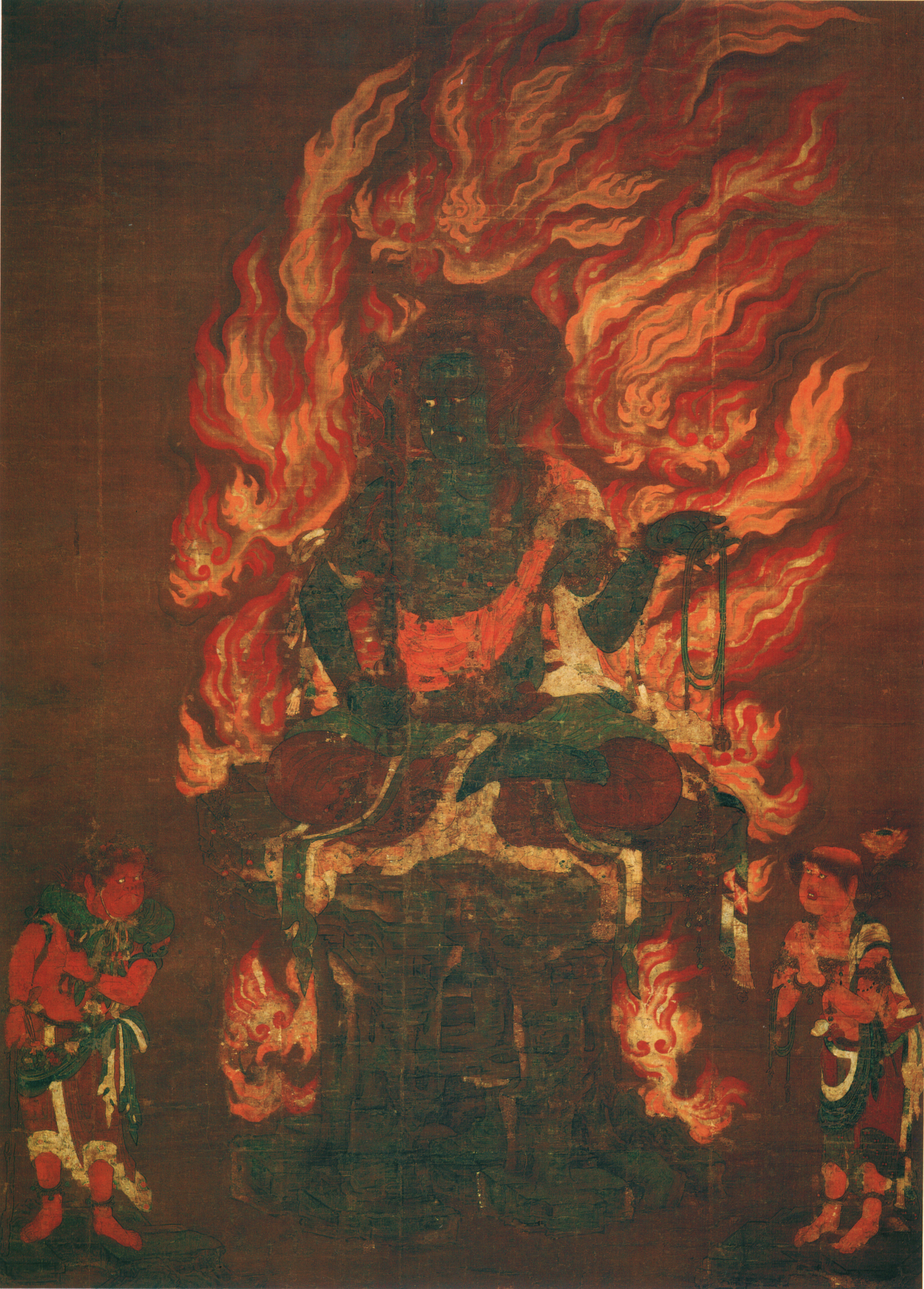 Fudō Myōō (Acala) and two attendants (絹本著色不動明王二童子像, kenpon chakushoku fudō myōō nidōjizō) (Blue Fudō (青不動, aofudōson). Hanging scroll, 203.3 cm x 148.5 cm. Color on silk. Located at Shōren-in, Kyoto, Japan. The scroll has been designated as National Treasure of Japan in the category paintings.